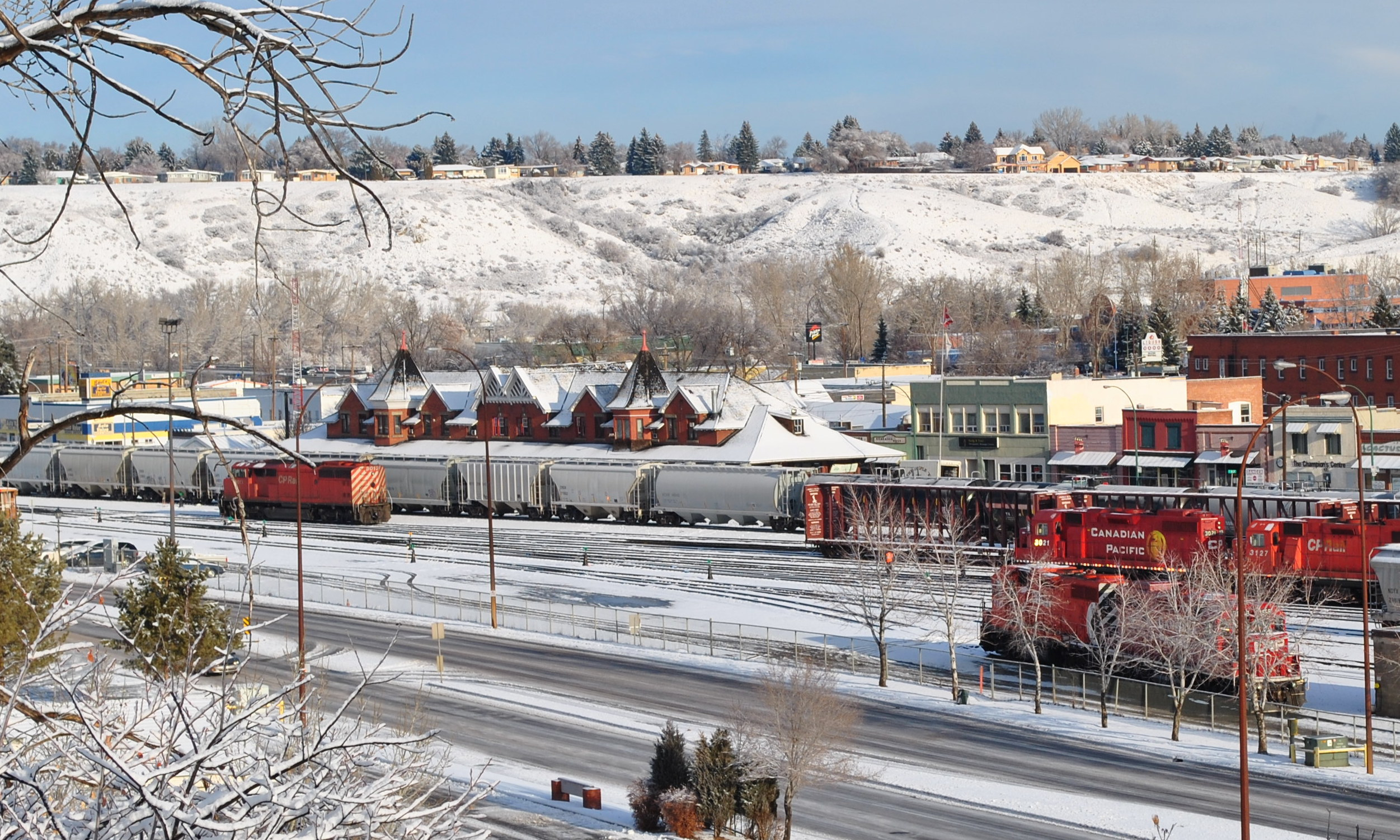 This is the Medicine Hat Railway station after the first snowfall of the year.